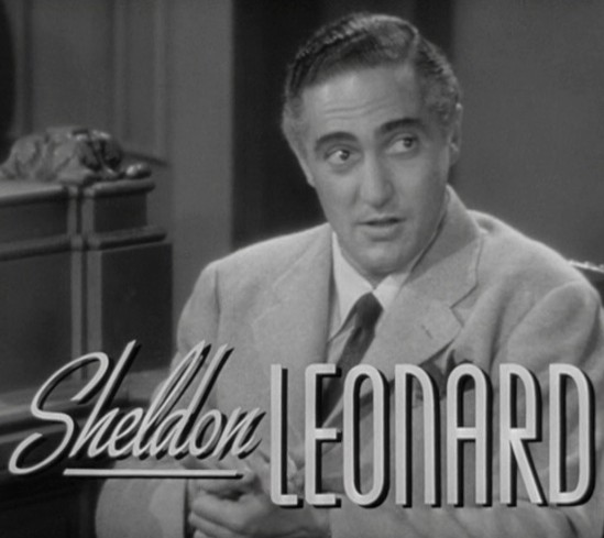 Cropped screenshot of Sheldon Leonard from the trailer for Another Thin Man